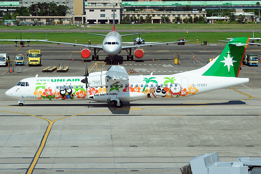 UNI Air ATR 72-600 B-17001 in Badz Maru scheme at Taipei, Songshan on November 12, 2016.